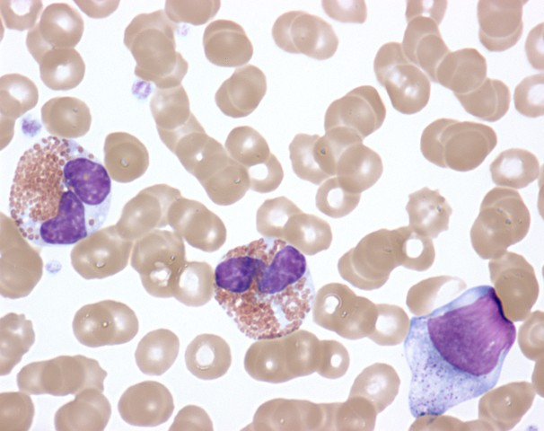 Activated eosinophils in the peripheral blood of a patient with idiopathic hypereosinophilic syndrome showing cytoplasmic clearing, nuclear dysplasia, and the presence of immature forms (100x magnification). Credit: NIAID